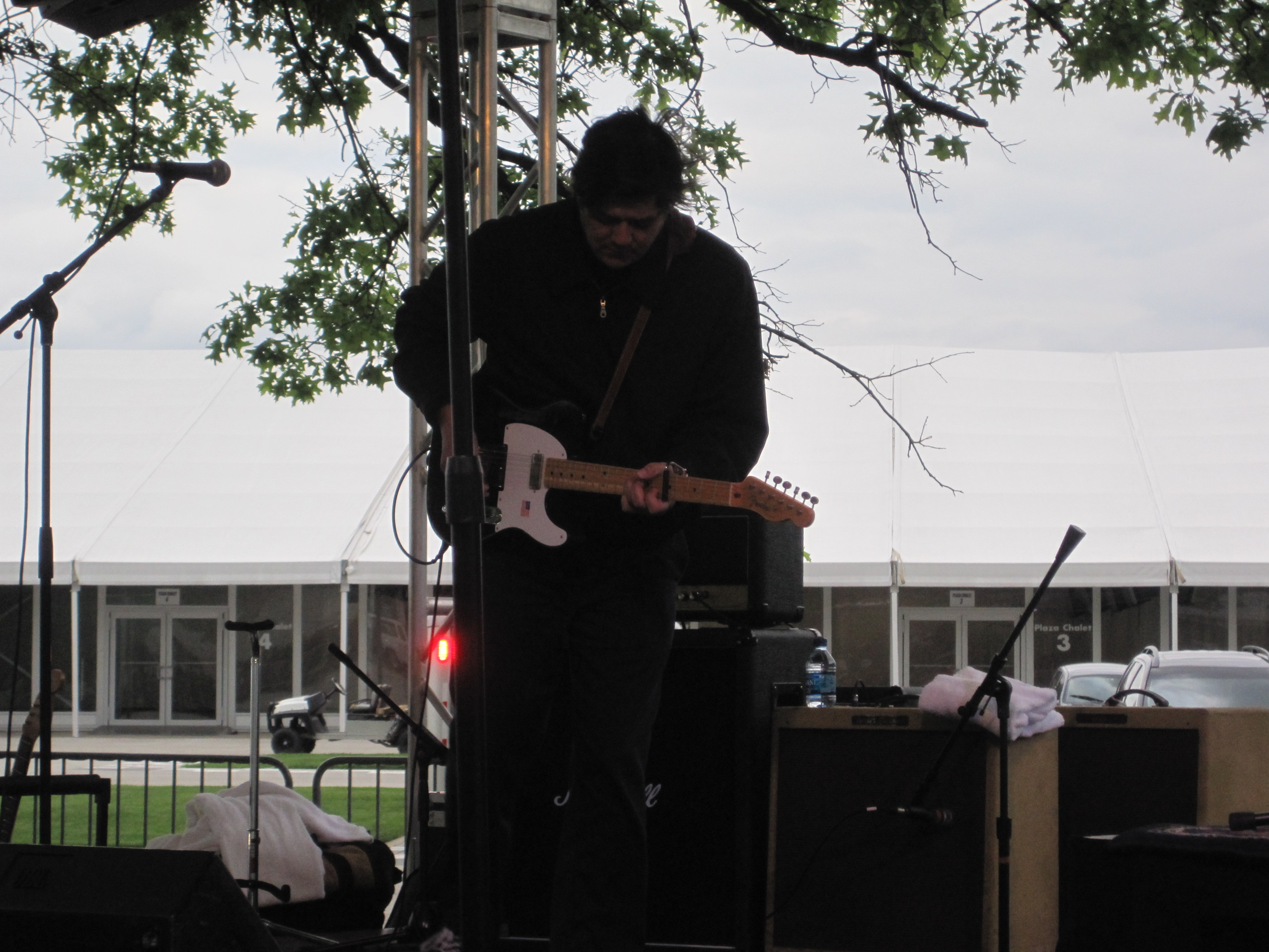 Jesse Valenzuela, lead guitarist for the Gin Blossoms, performing at the Indianapolis Motor Speedway on Saturday, May 8, 2010.